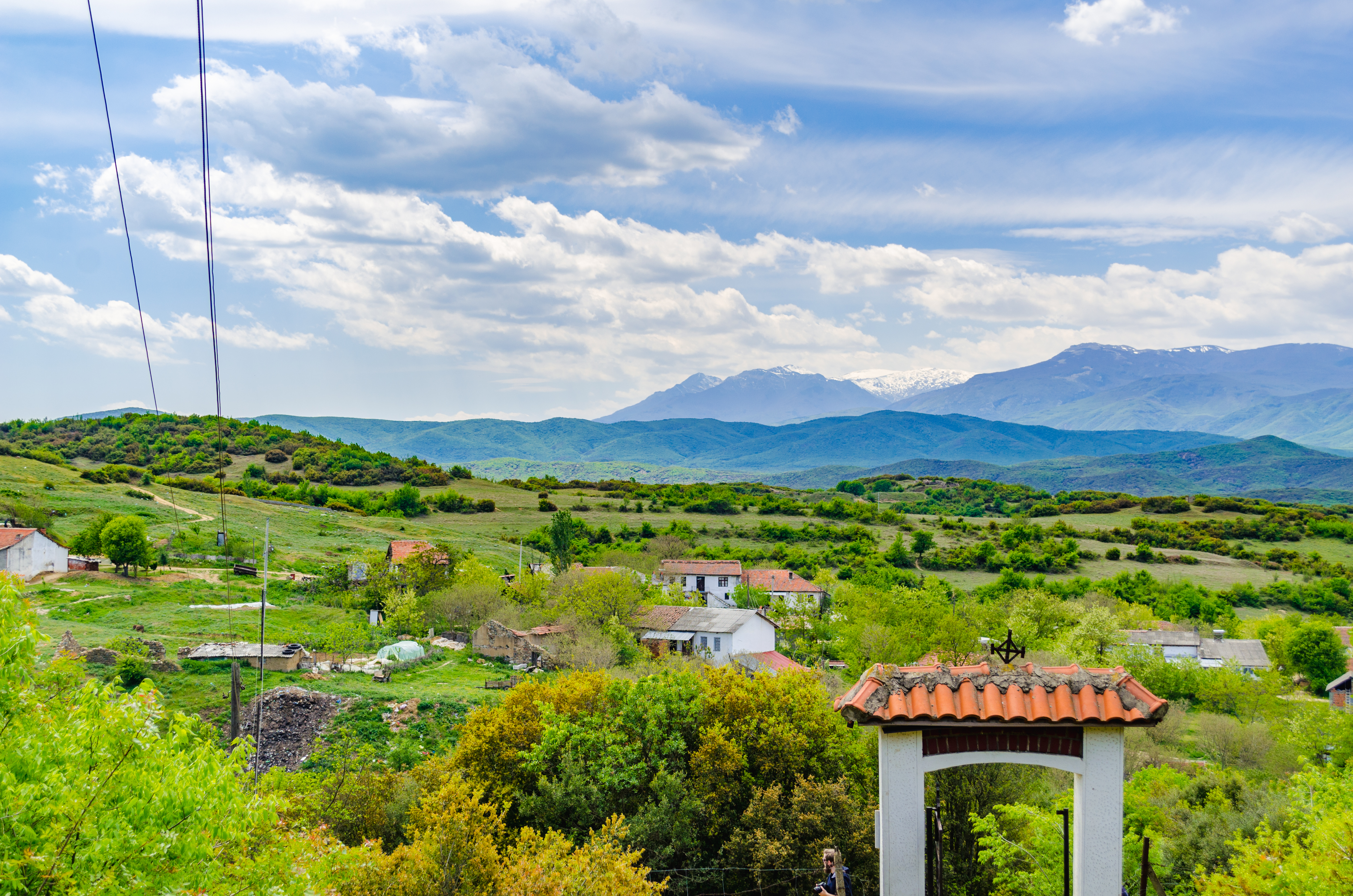 Small part of the village Marvinci, taken from the church above the village